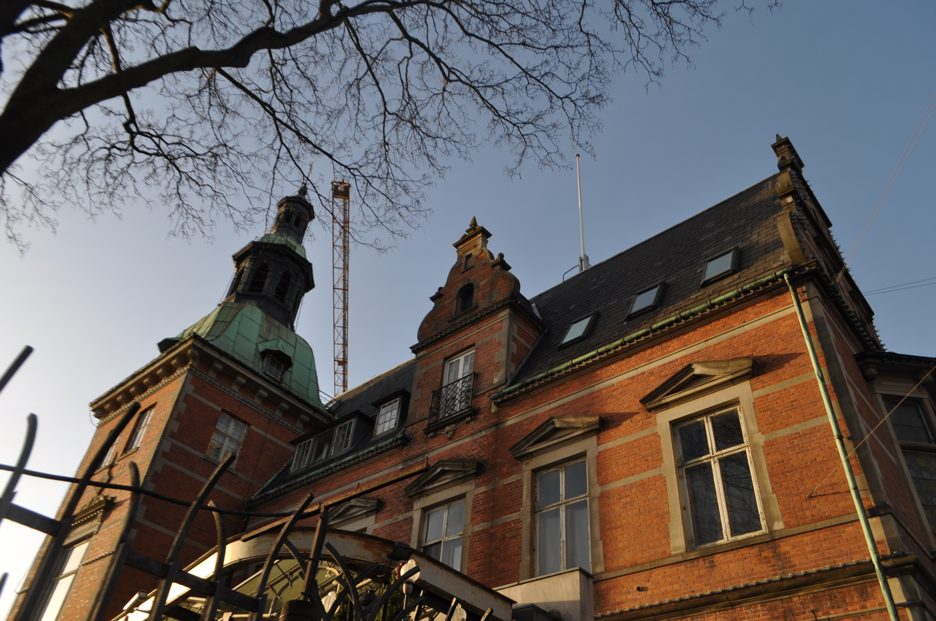 H.C. Andersenslottet in Copenhagen, photographed 2011-12.27.